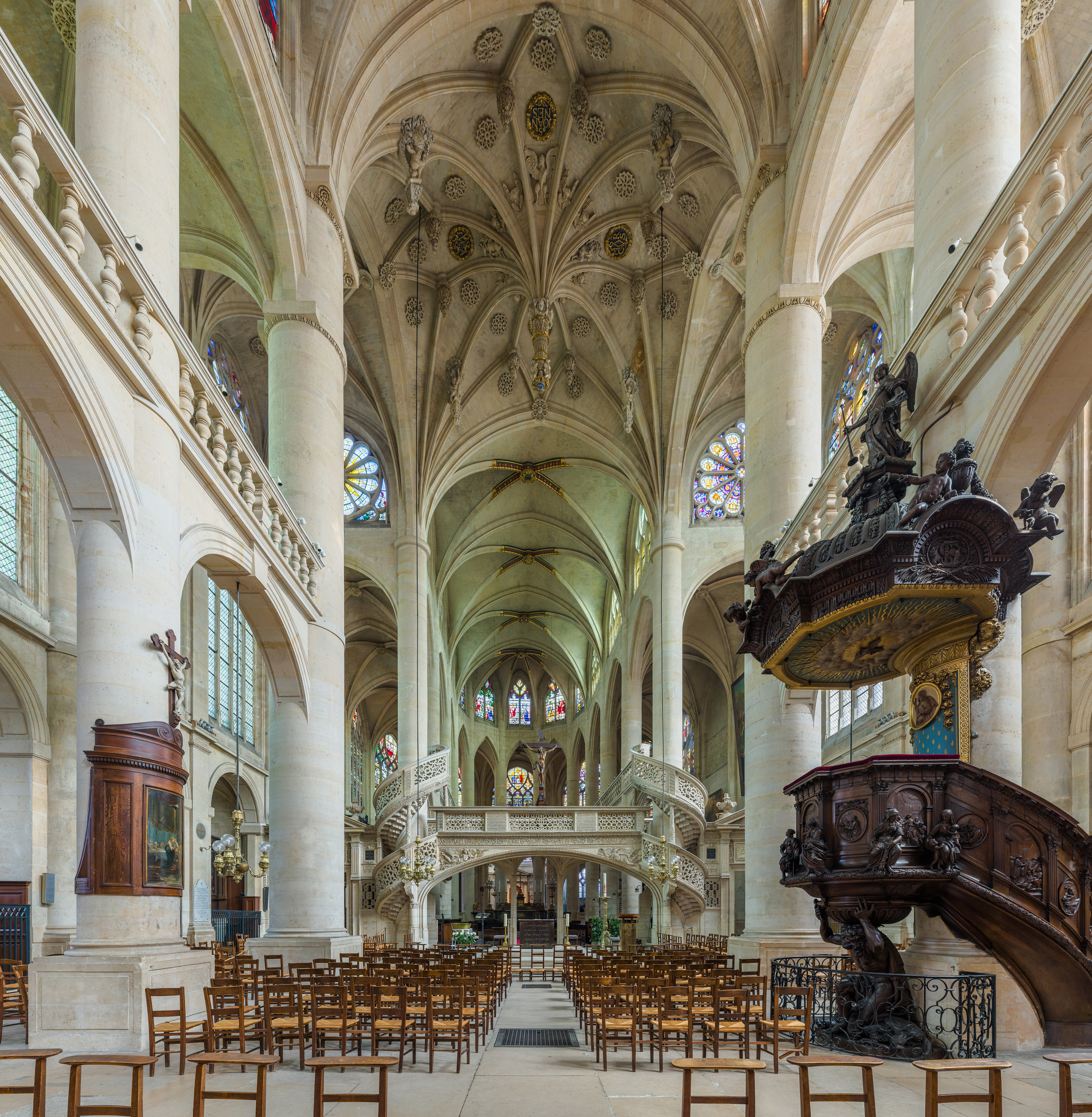 The interior of St-Etienne-du-Mont in Paris, France.